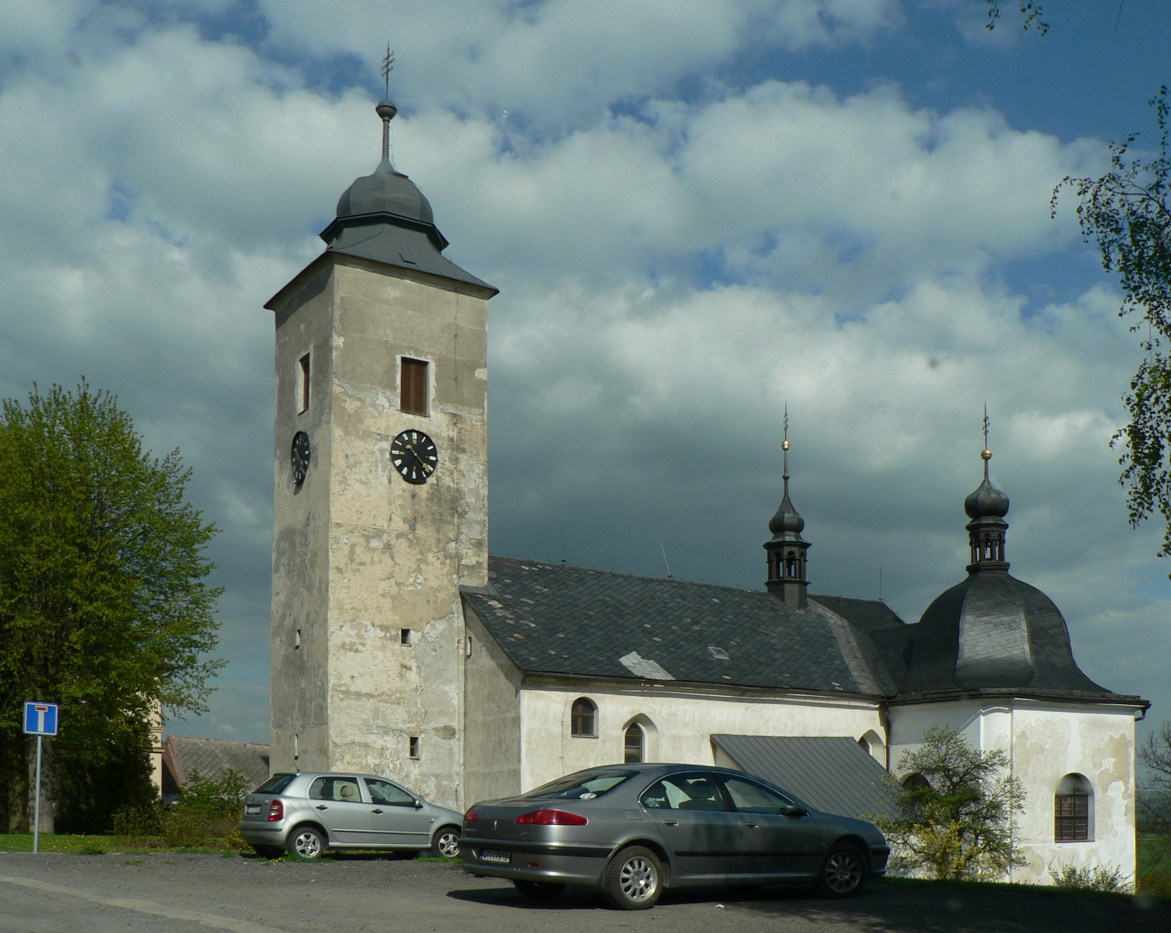 Horní Město, Bruntál District, Czechia. Church of Saint Mary Magdalene.